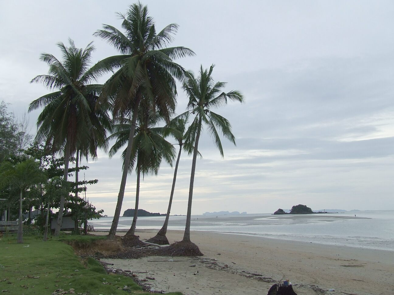 Beach in Koh Lanta, Thailand Photo taken 2006 by User:Neitram